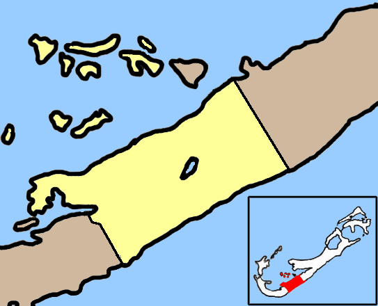 Location map of Paget Parish, Bermuda